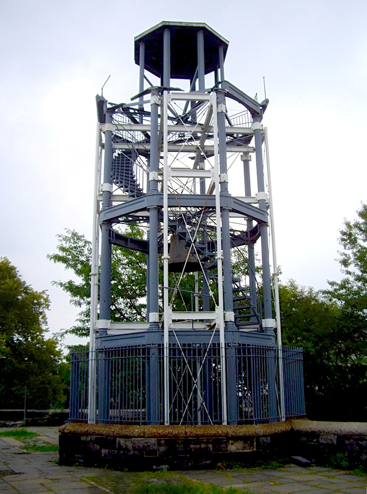 Harlem Fire Watchtower, Marcus Garvey Park, Harlem, New York City, NY